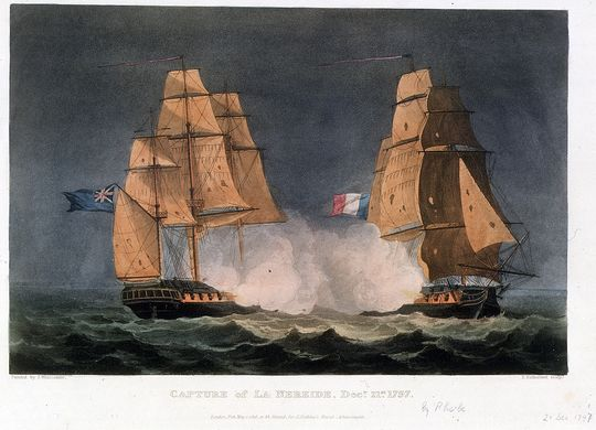 Capture of Néréide by HMS Phoebe, on 20 December 1797